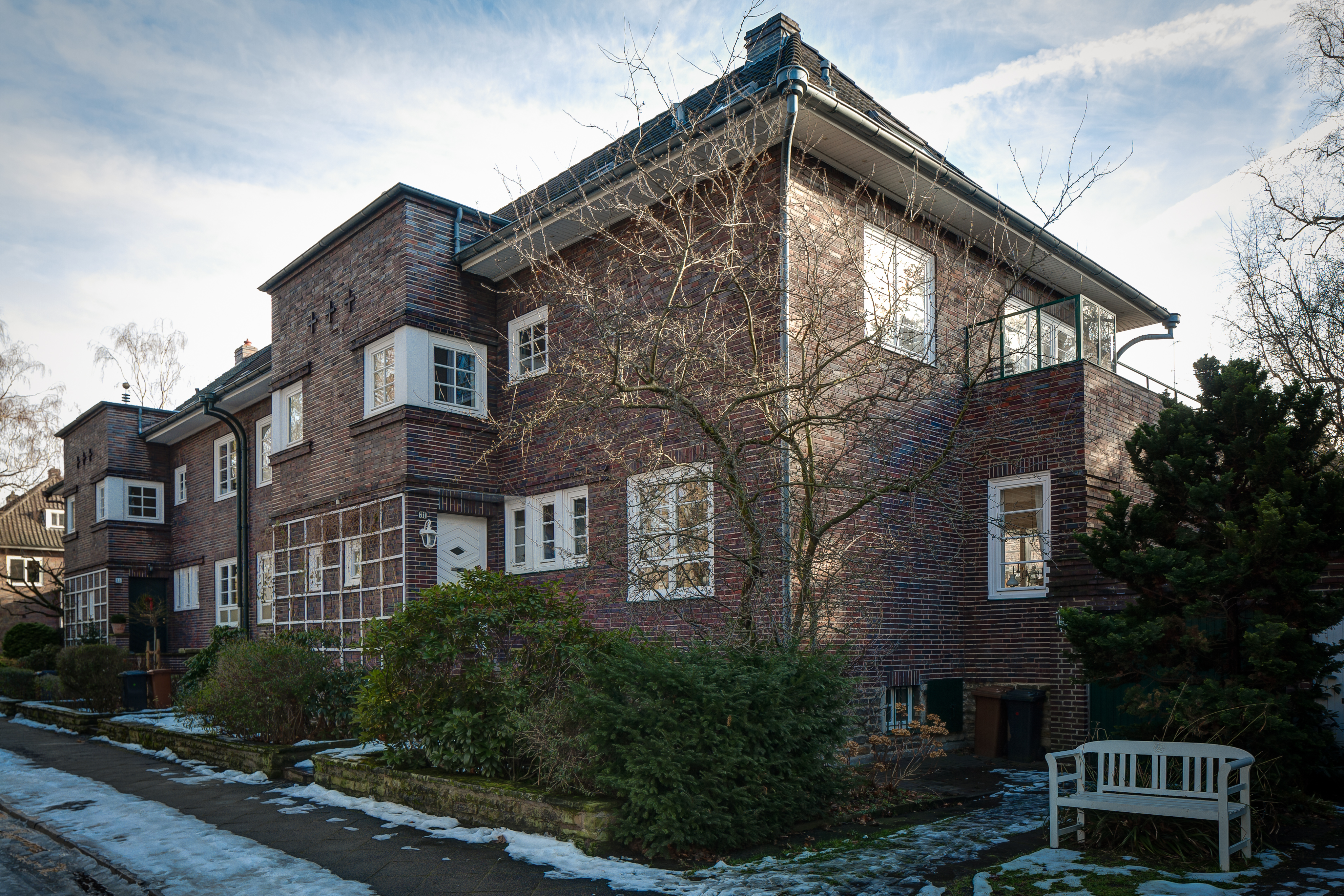 Residential house located in Kleefeld district, Hanover, Germany.